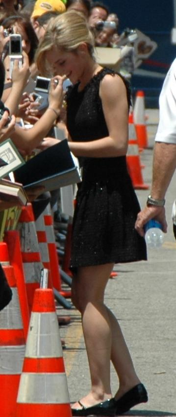 Emma Watson signing autographs for fans outside of Grauman's Chinese Theater.